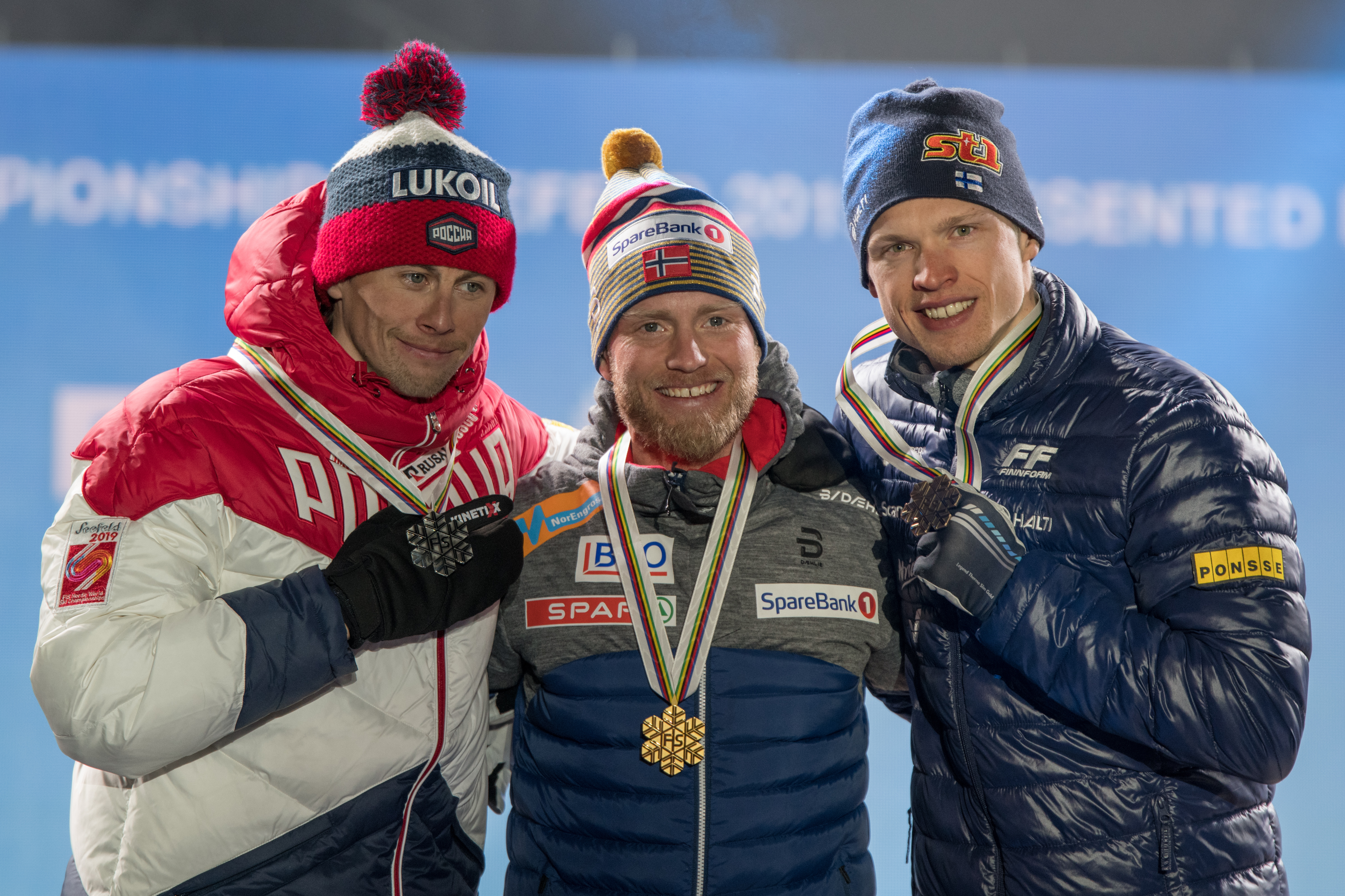 FIS Nordic World Ski Championships Seefeld 2019 - Medal Ceremony at the Medal Plaza. Picture shows Alexander Bessmertnykh (RUS), Martin Johnsrud Sundby (NOR), Iivo Niskanen (FIN).